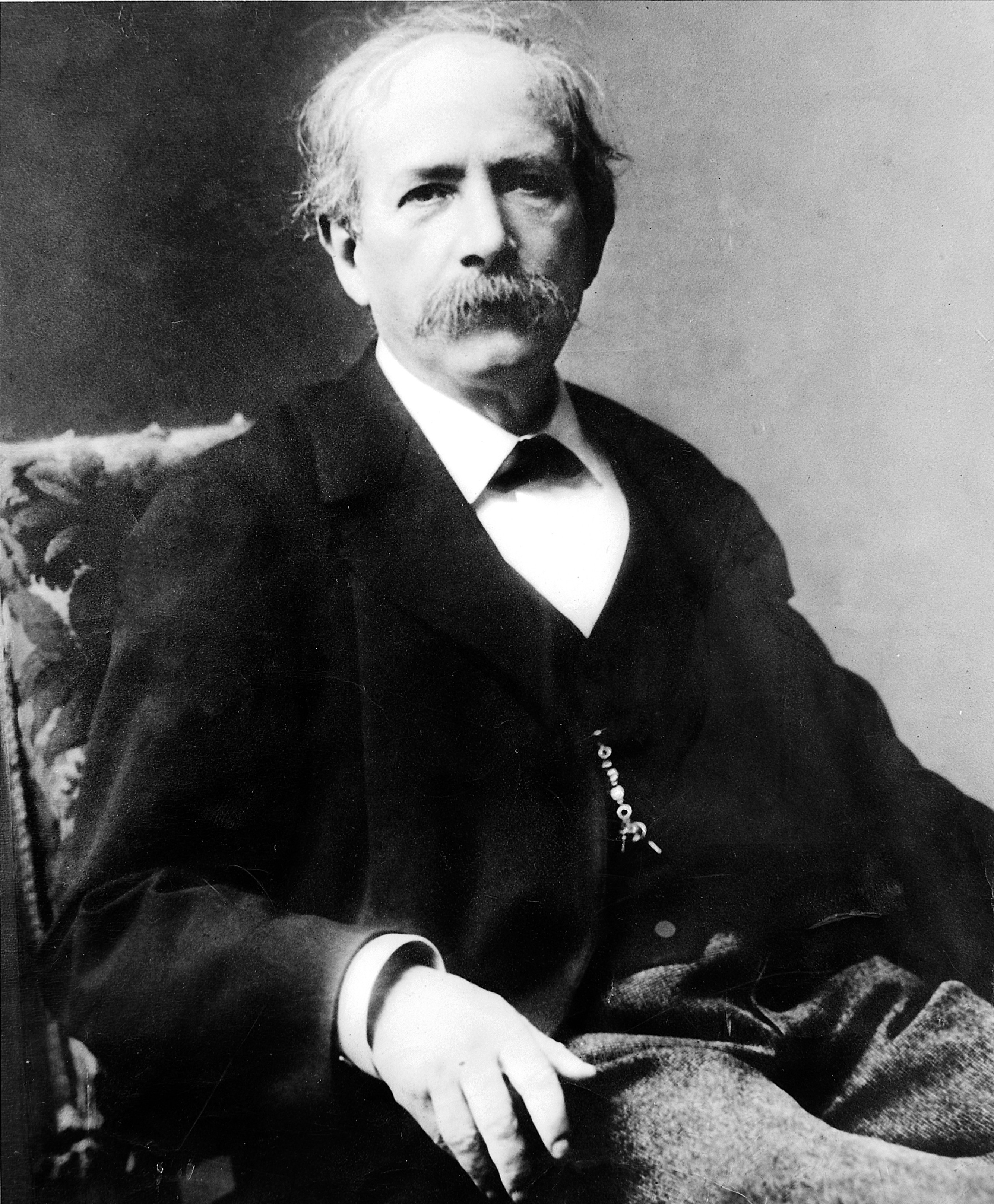 Portrait of Marcellin (or Marcelin) Pierre Eugène Berthelot [1827 - 1907], French chemist and politician.